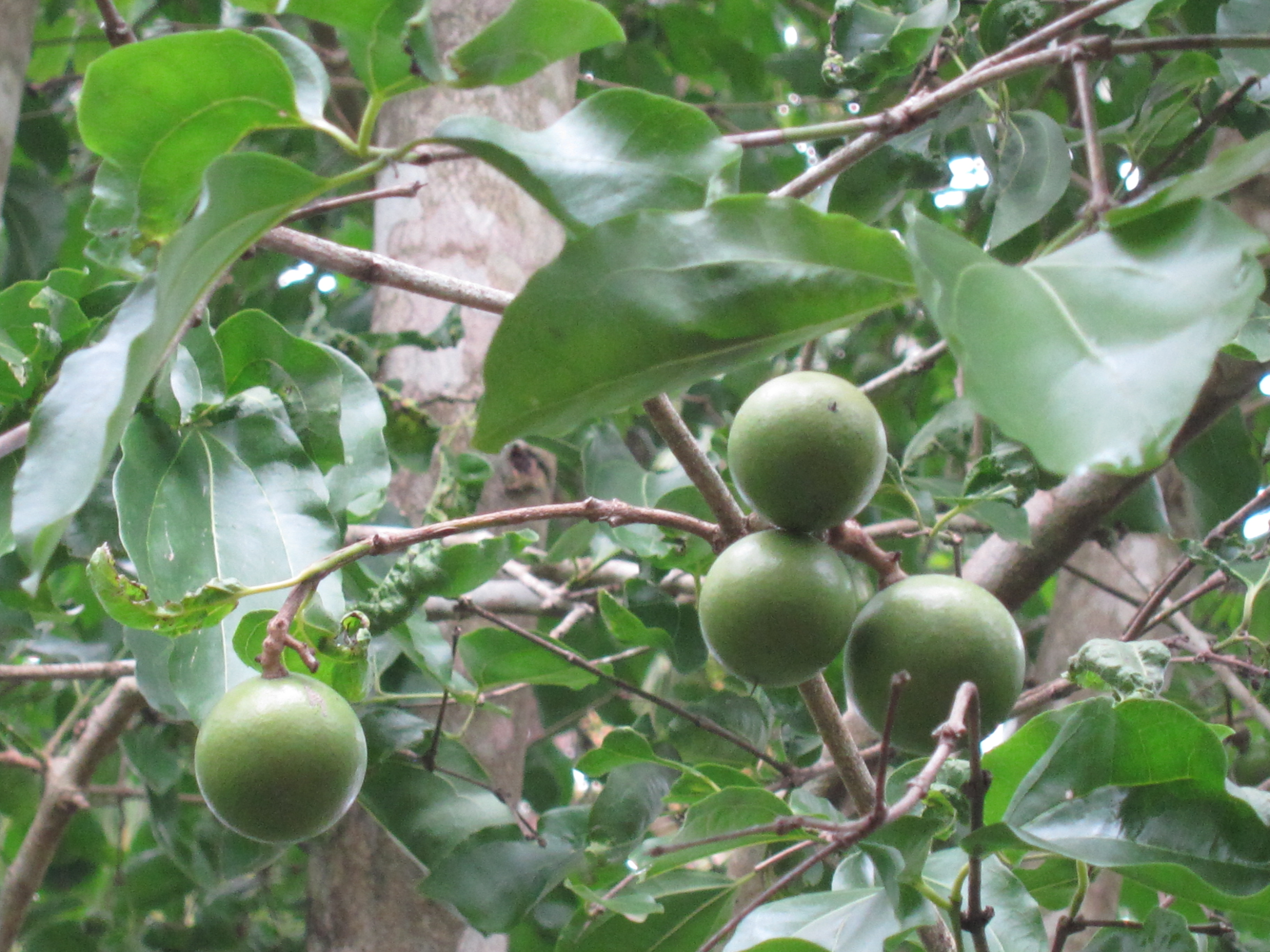 Poison Nut Tree, Snake-wood, Quaker button - കാഞ്ഞിരം